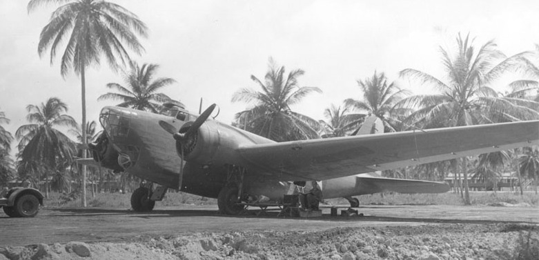 Description: Douglas B-18 sits on airfield in Panama. (21167 A.C.)